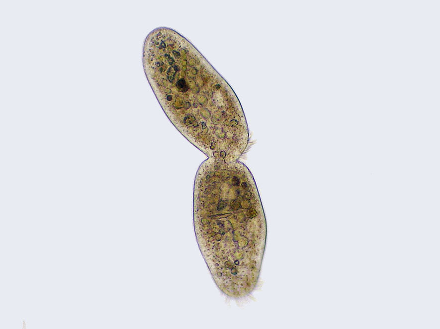 Unknown species of cilliate in the last stages of mitosis (cytokinesis), with cleavage furrow visible.